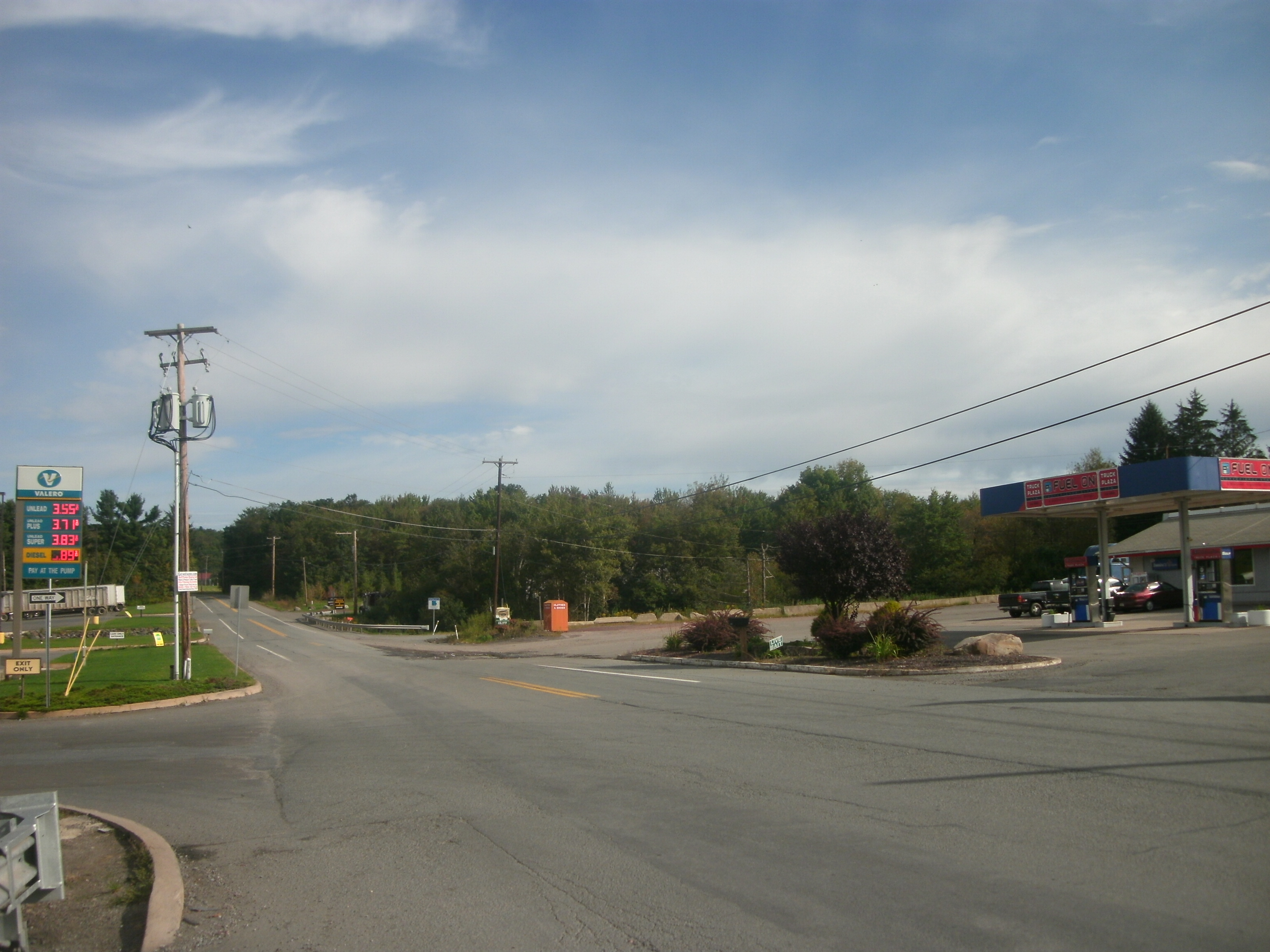 Pennsylvania Route 534 heading northbound from the interchange with Interstate 80 in East Side, Pennsylvania.